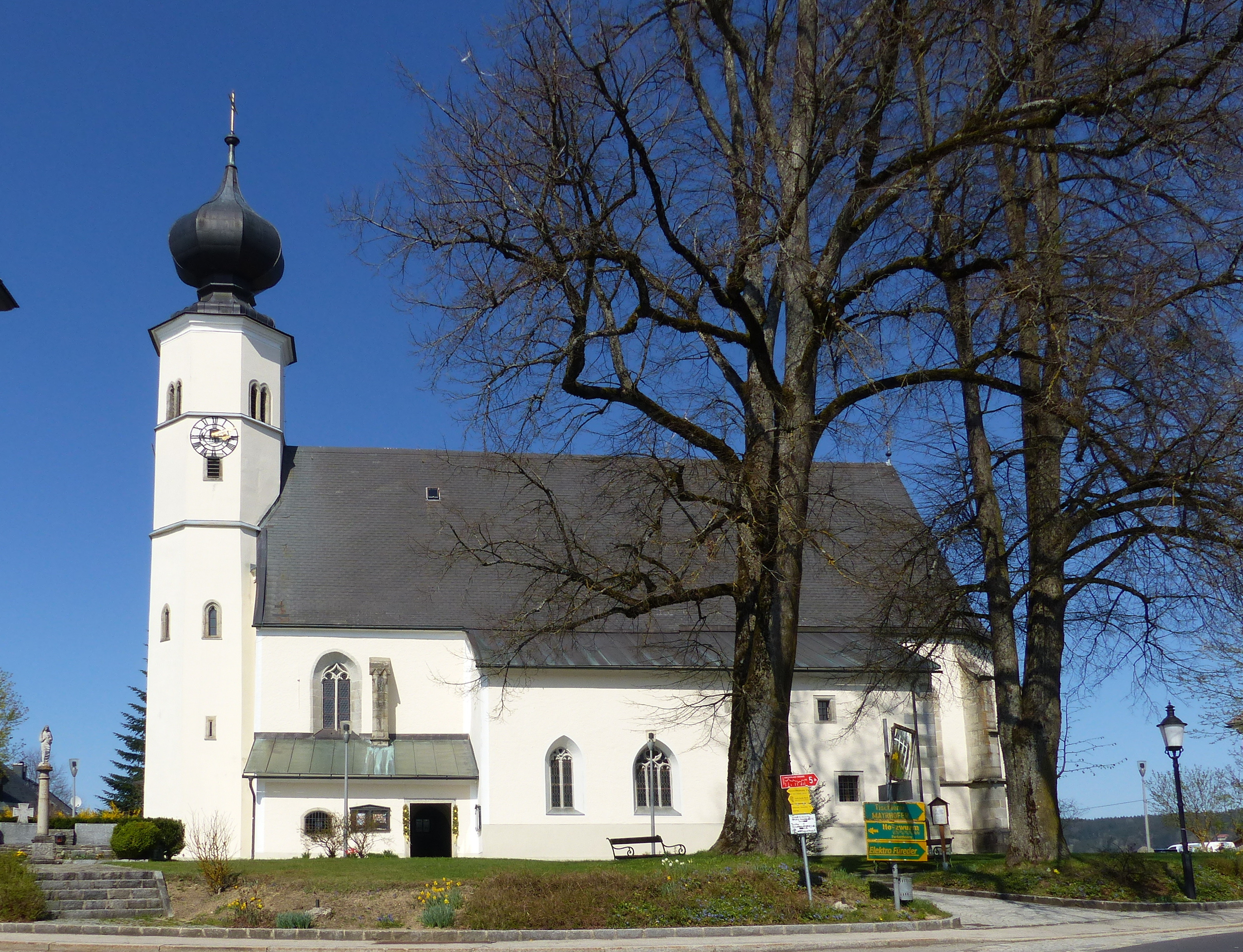 St.Veit im Mühlkreis ( Upper Austria ). Saint Vitus parish church.